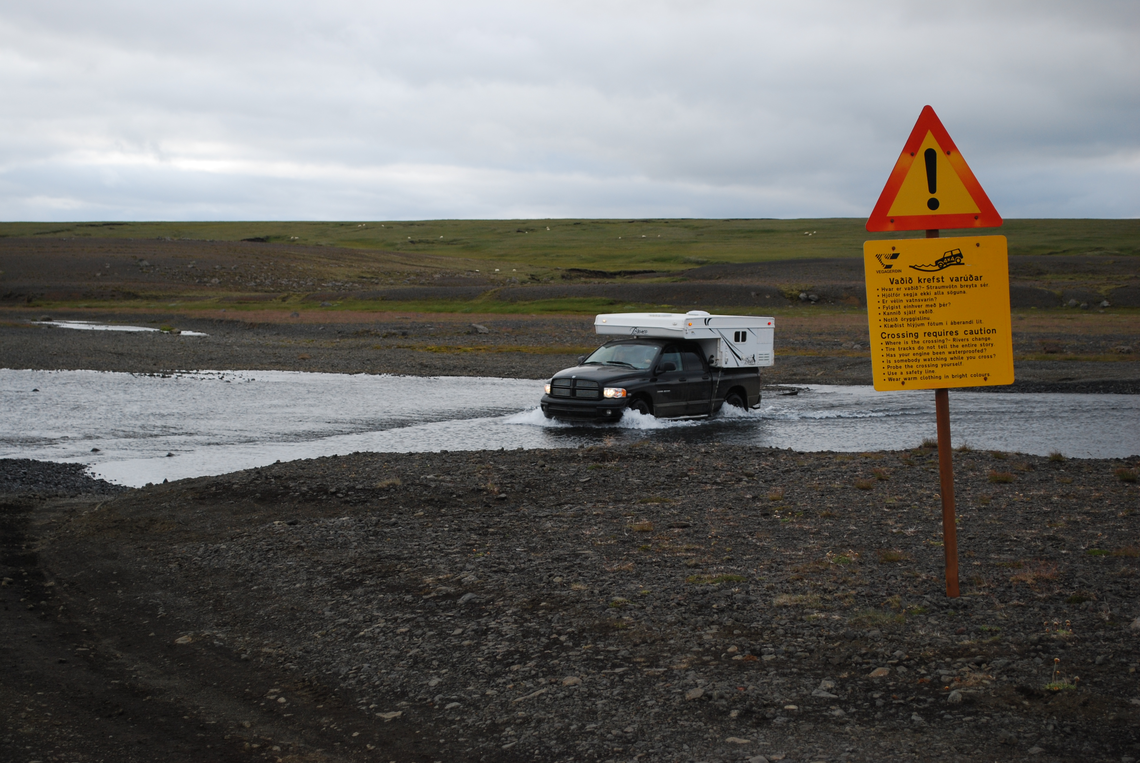 Wading by car trough way to Laki volcano, Iceland